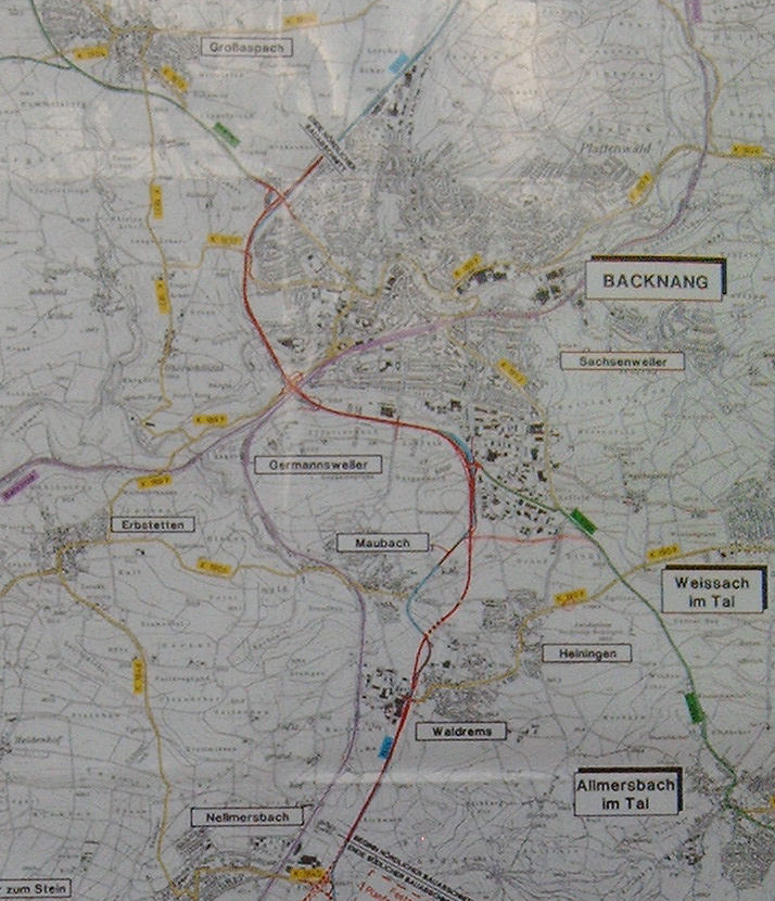 Cropped version of photography by Benutzer:Holger1974 of official Bundesstraße 14 road map illustrating the plan for its expansion